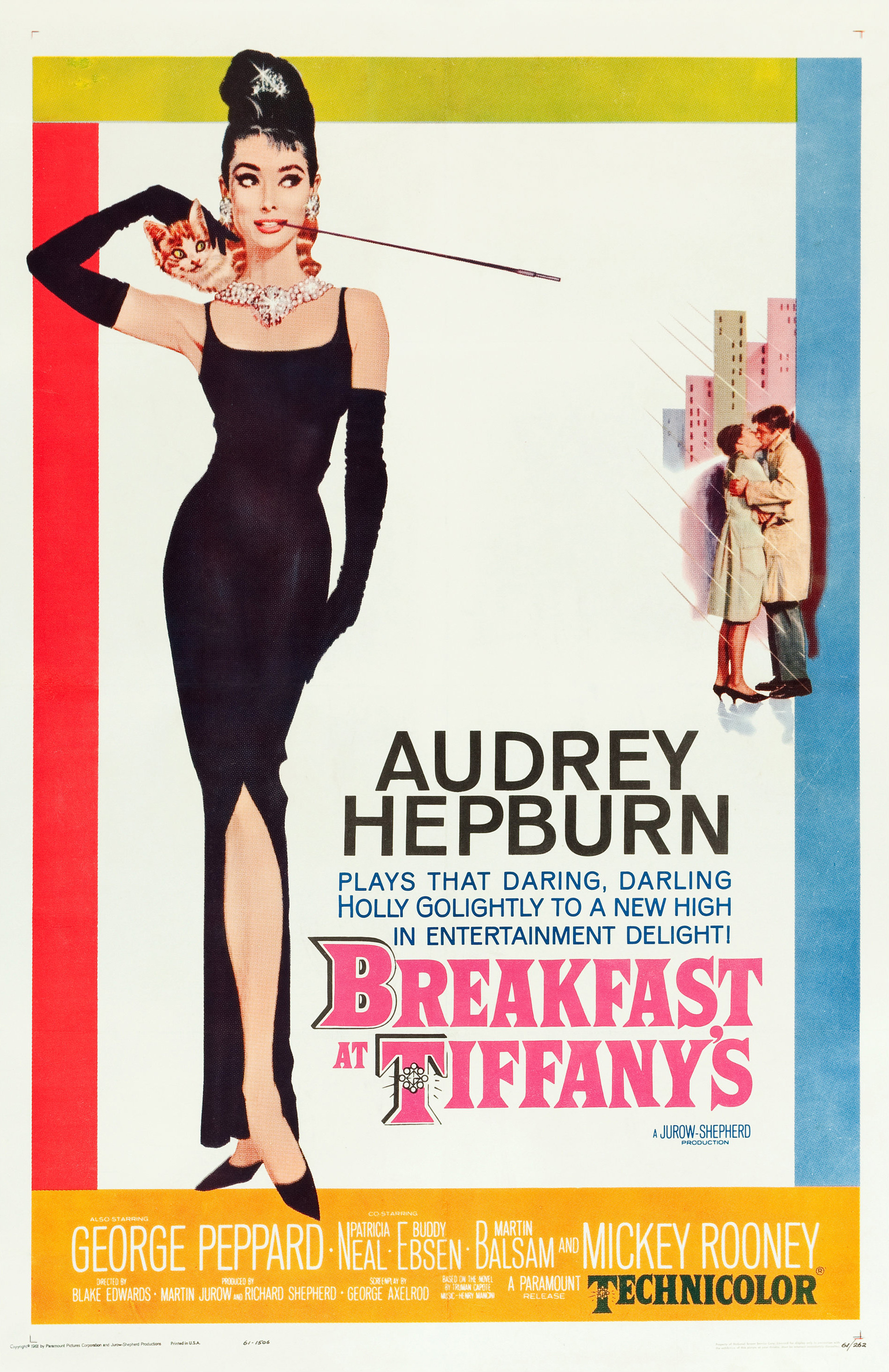 Theatrical poster for the American release of the 1961 film Breakfast at Tiffany's. The iconic illustration depicts the film's star, Audrey Hepburn, playing the character of New York City socialite Holly Golightly. In 2003, this poster design ranked #80 on the American Film Institute's list of the "Top 100 American Movie Poster Classics" (#51–100 via the Internet Archive), part of its 100 Years... series. More on the Top 100 American Movie Posters series at and .